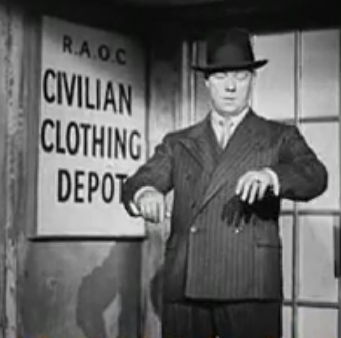 Still from 1946 MOI film, Resettlement Advice Centres.